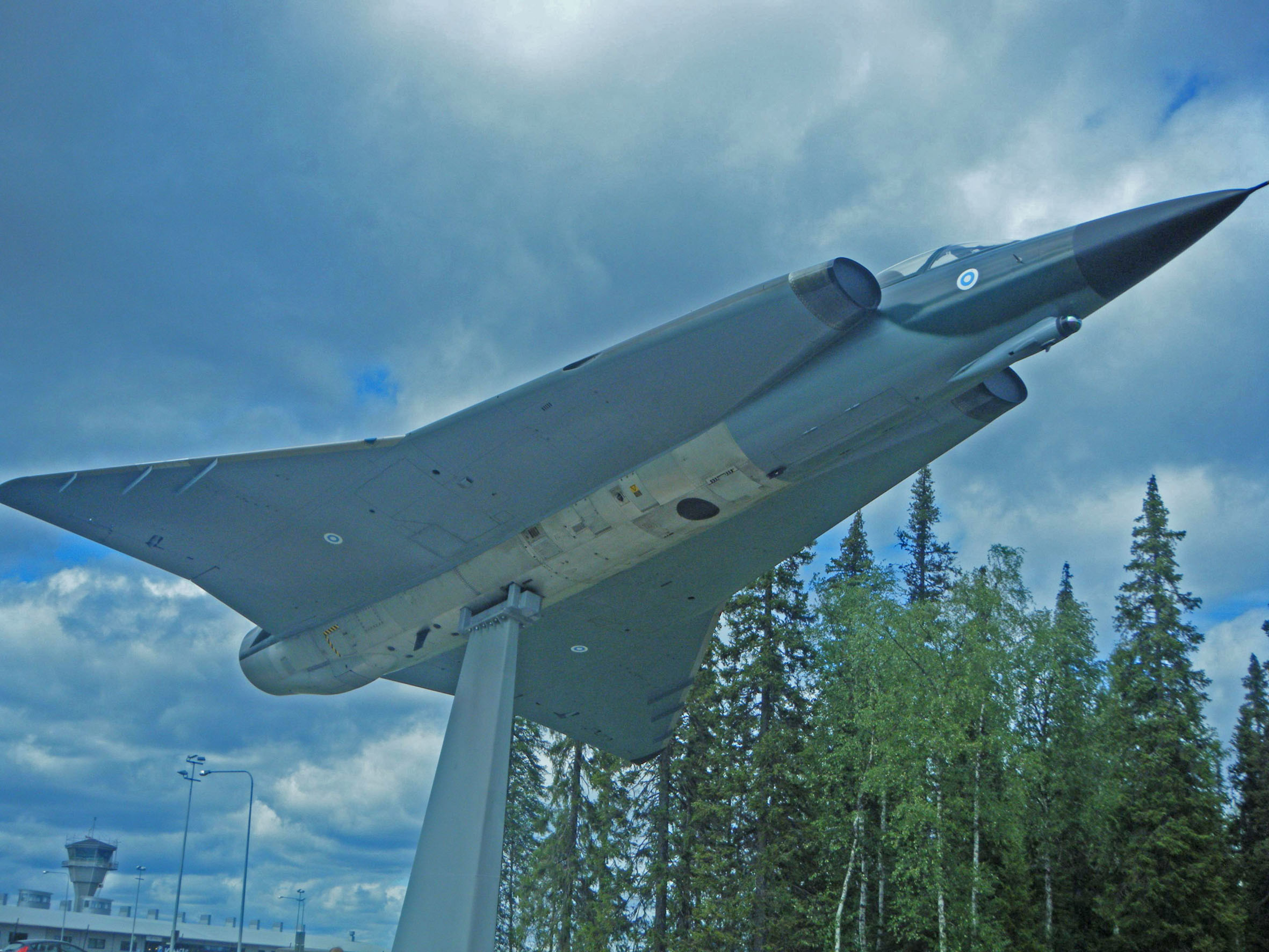 Saab 35 Draken outside Kittilä airport, Finland